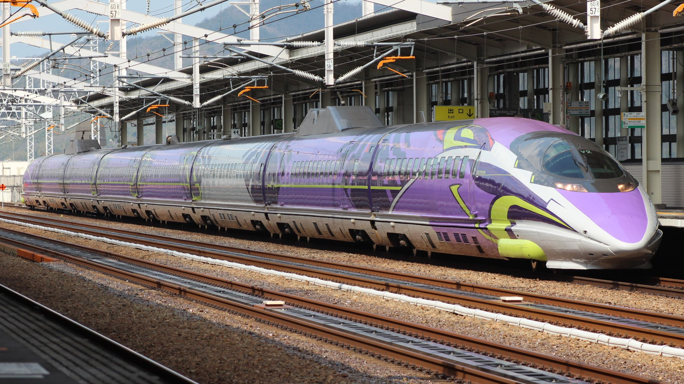 JR West 500 series shinkansen set V2 in special "500 TYPE EVA" livery at Himeji Station on a Kodama service